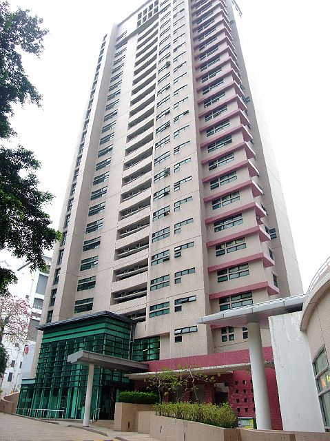 Starr Hall, Pokfulam Road 91B, Hong Kong Island, Hong Kong